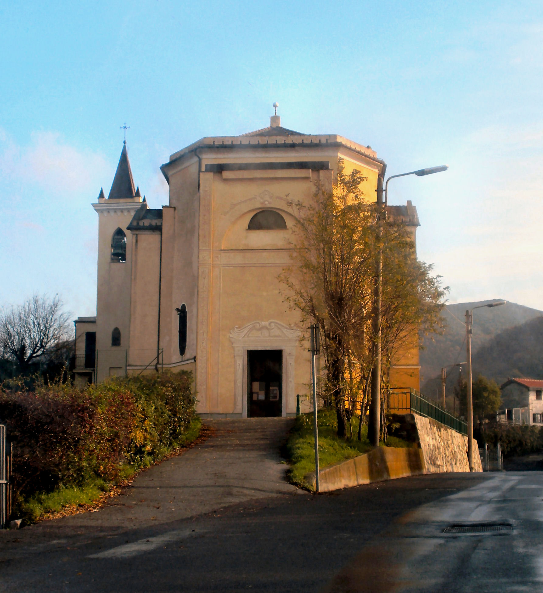 Genoa (Italy), quarter of Rivarolo, the church of St. John the Baptist